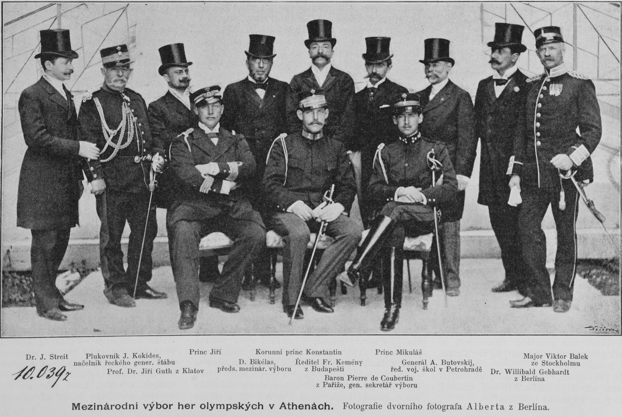 Members of an international committee for organization of 1896 Summer Olympics.